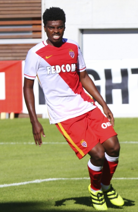 Jemerson